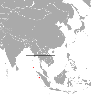 Black-eared Flying Fox (Pteropus melanotus) range (red — extant, black — extinct)